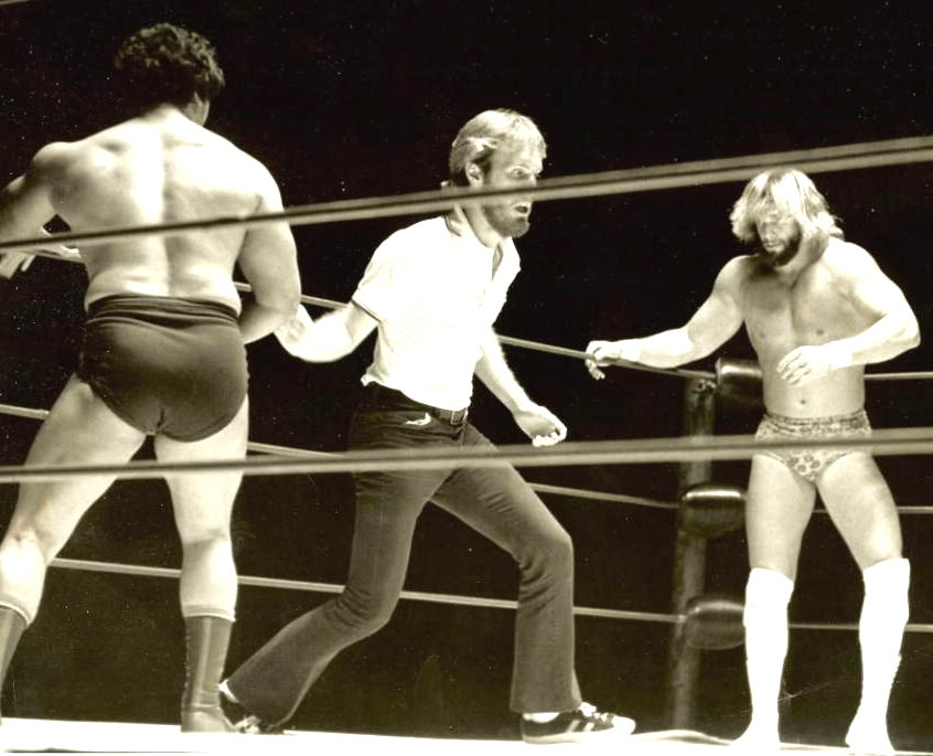 Randy Savage, right, who later starred as the "Macho Man," and Roberto Soto wait for me to get outta the way in Macon, GA.